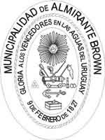 Coat of arms of Almirante Brown Partido in Buenos Aires Province.